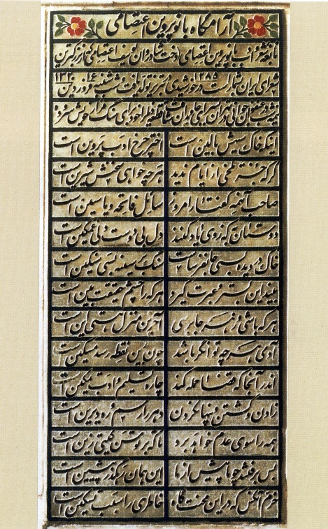 مقبره پروین اعتصامی شاعر تبریزی در حرم فاطمه معصومه